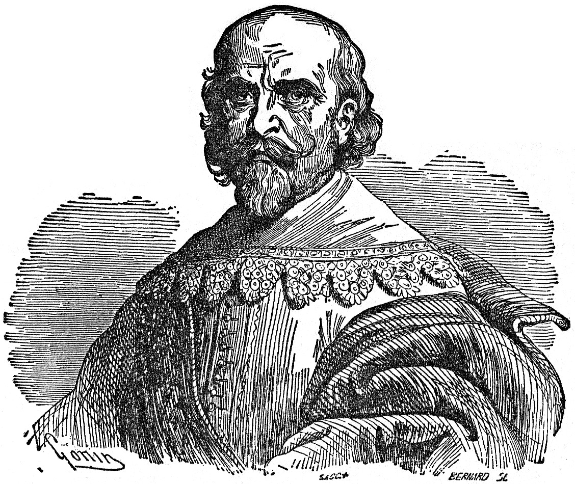 Picture from "I promessi sposi" of Innominato